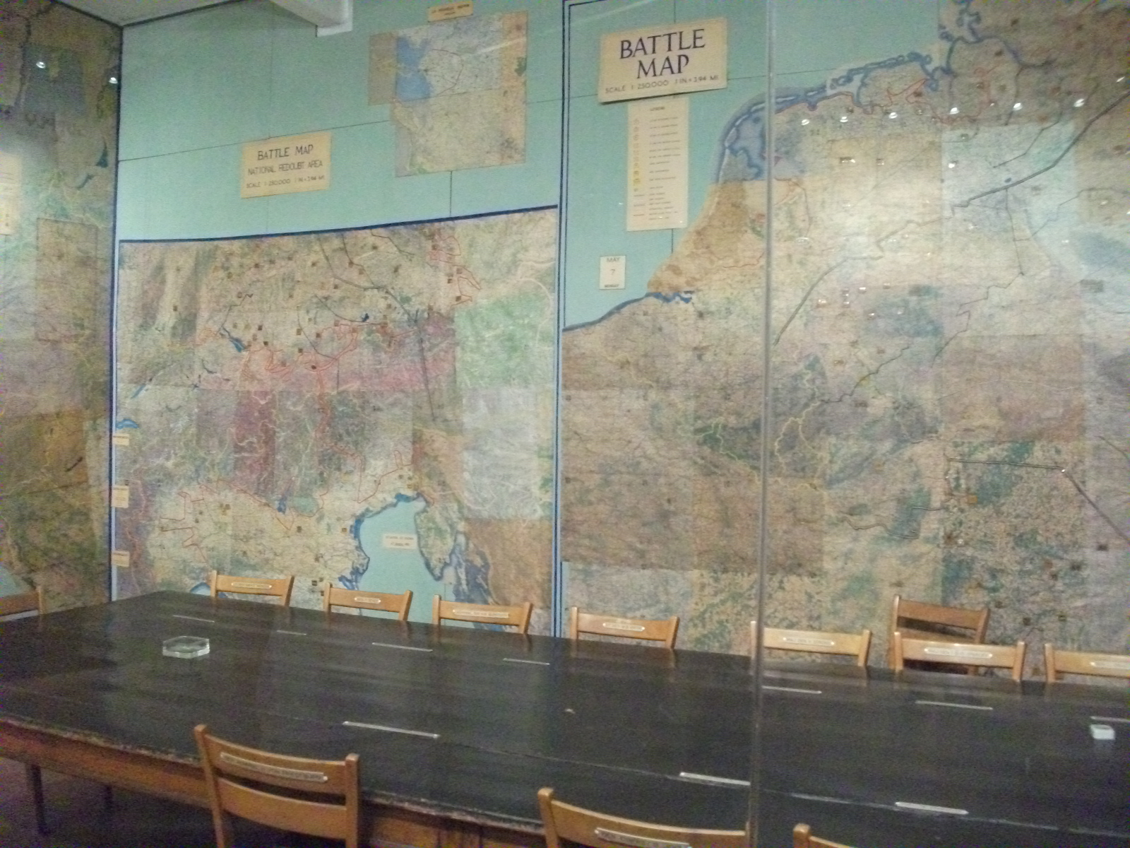 War Room, Museum of the surrender, Reims, maps, table of redundancy, series of photographs from the front door (south) turn right, N°4.